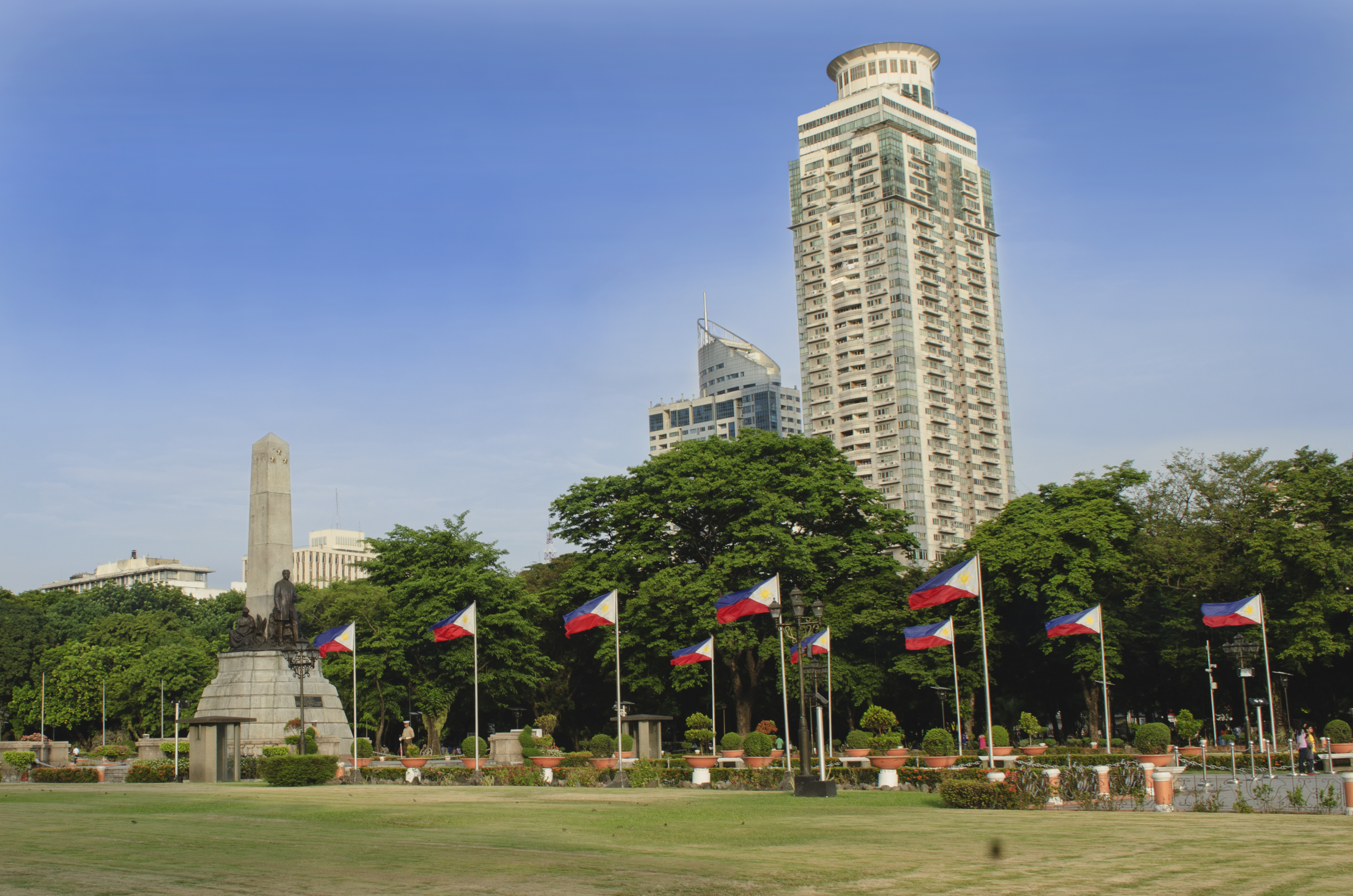 Rizal Park or Luneta is located at the heart of Manila. It was a tribute to the country's national hero, Dr. Jose Rizal and marks the spot where he was executed by a firing squad.